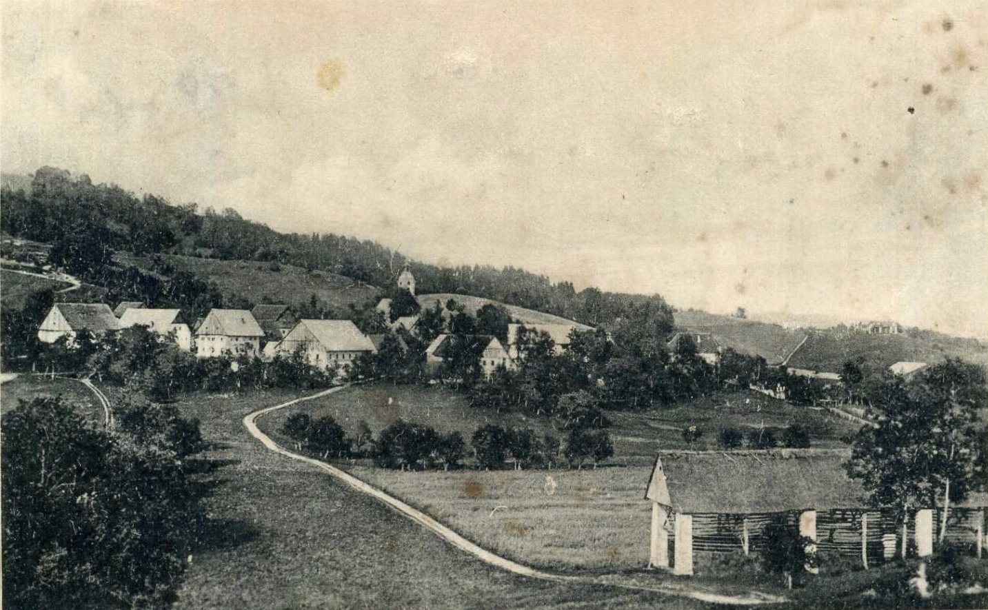 Postcard of Ledine, Idrija.